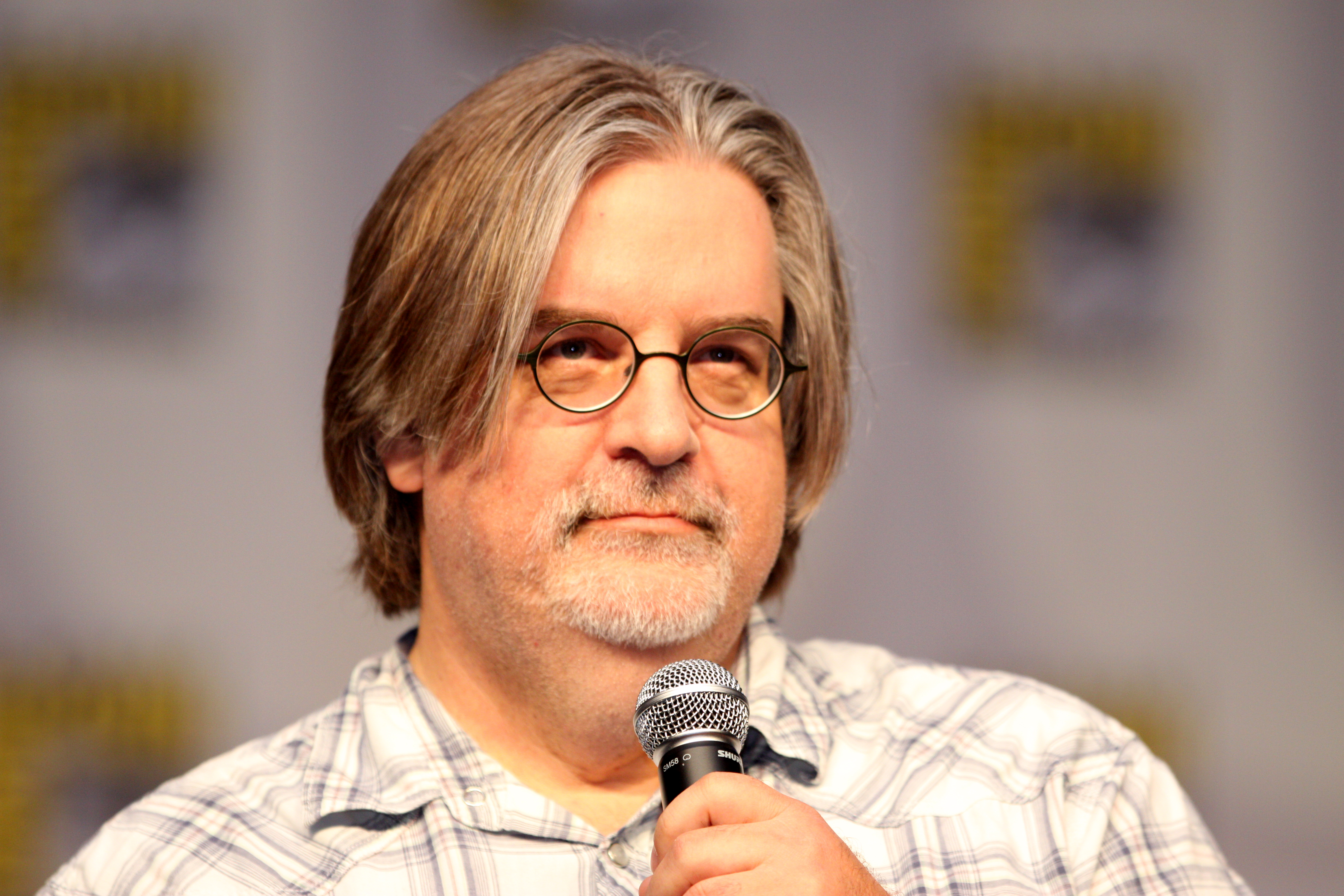 Matt Groening presenting the Futurama panel at the 2010 San Diego Comic Con in San Diego, California.